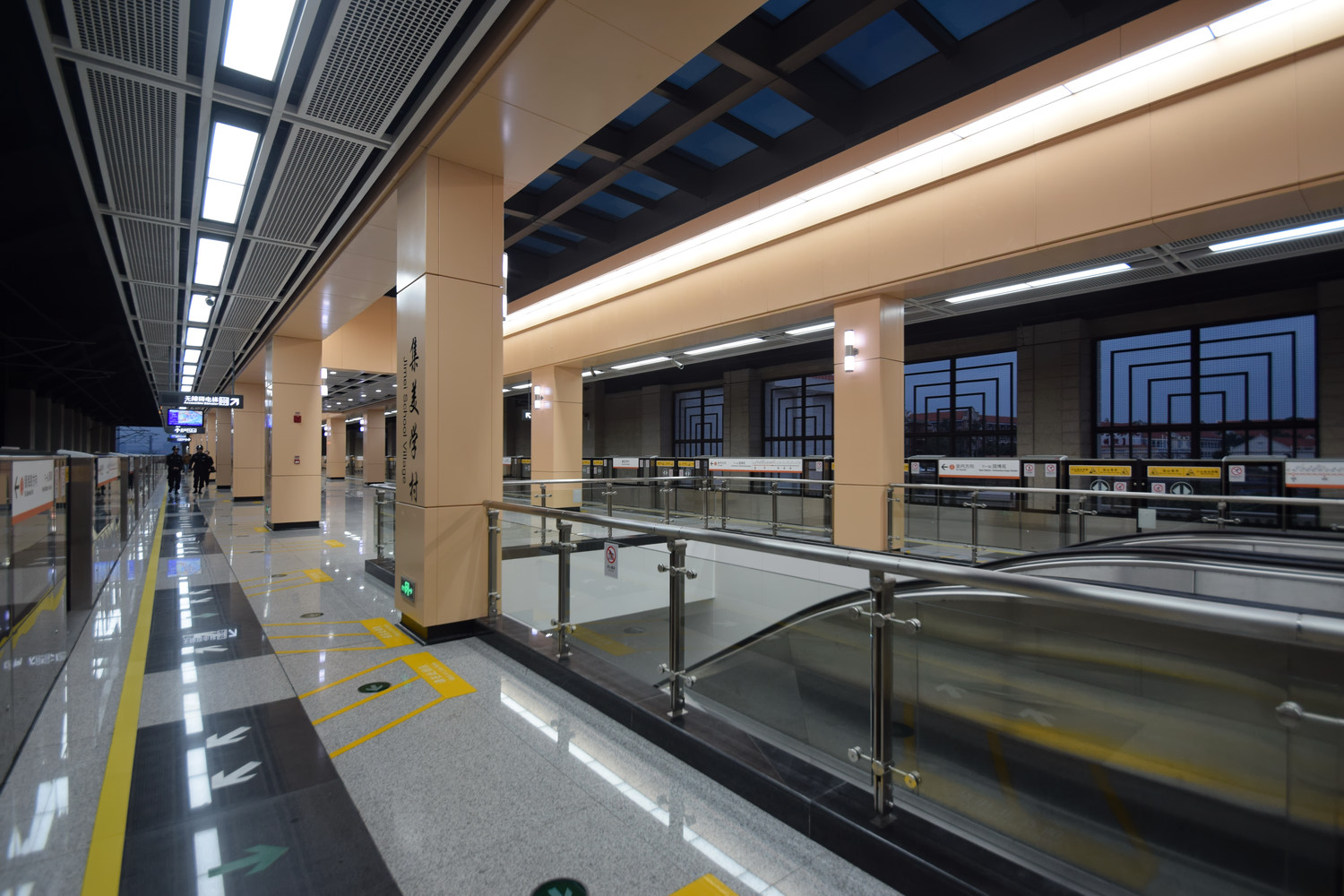 Line 1 Platform of Jimei School Village Station, Xiamen Metro